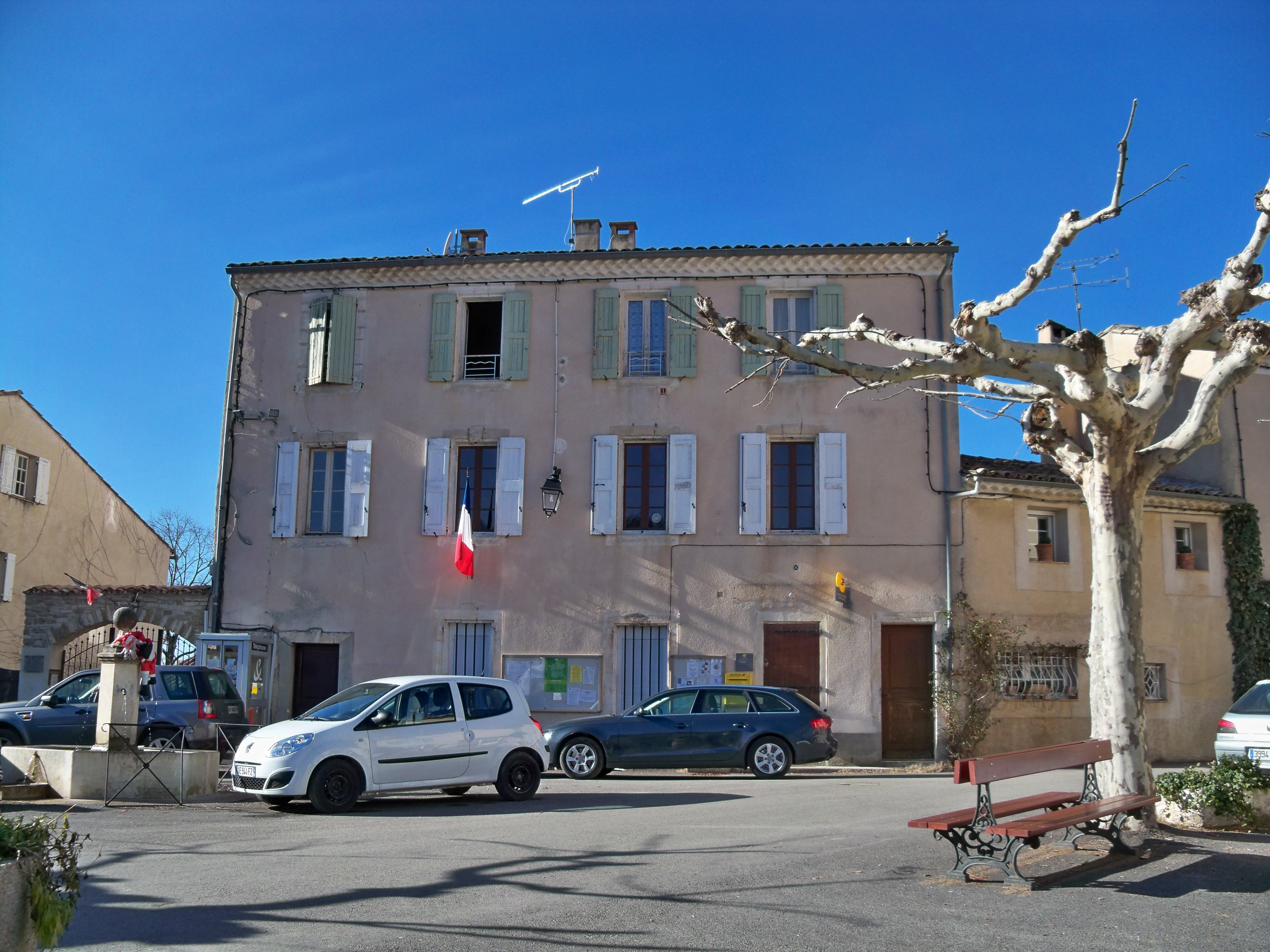 town hall of Ongles (Alpes de Haute Provence, France)